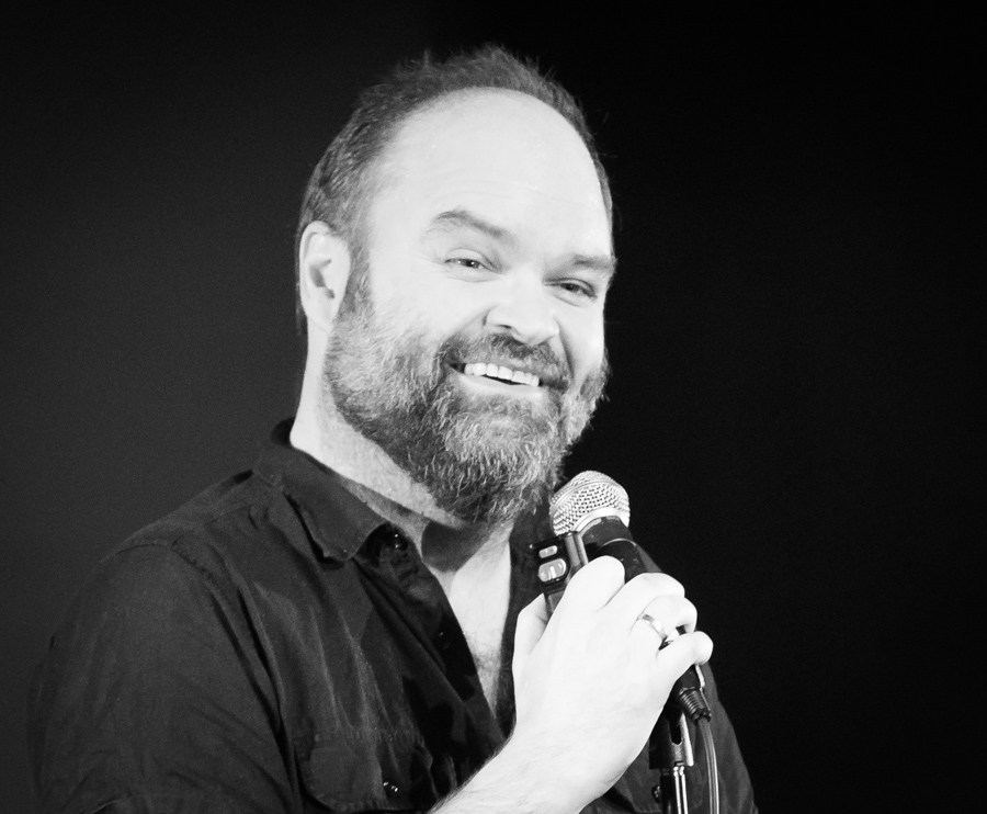 Atle Antonsen on the stage at Late Night Fredag on Parkteatret. The comedy event took place on 27. January 2017 in Oslo as part of Crap Comedy festival 2017. Lineup:Sofie Hagen (comedian)Dag Sørås (comedian)Martin Beyer-Olsen (comedian)Ahmed Mamow (comedian)Christoffer Schjelderup (comedian)Atle Antonsen (comedian)